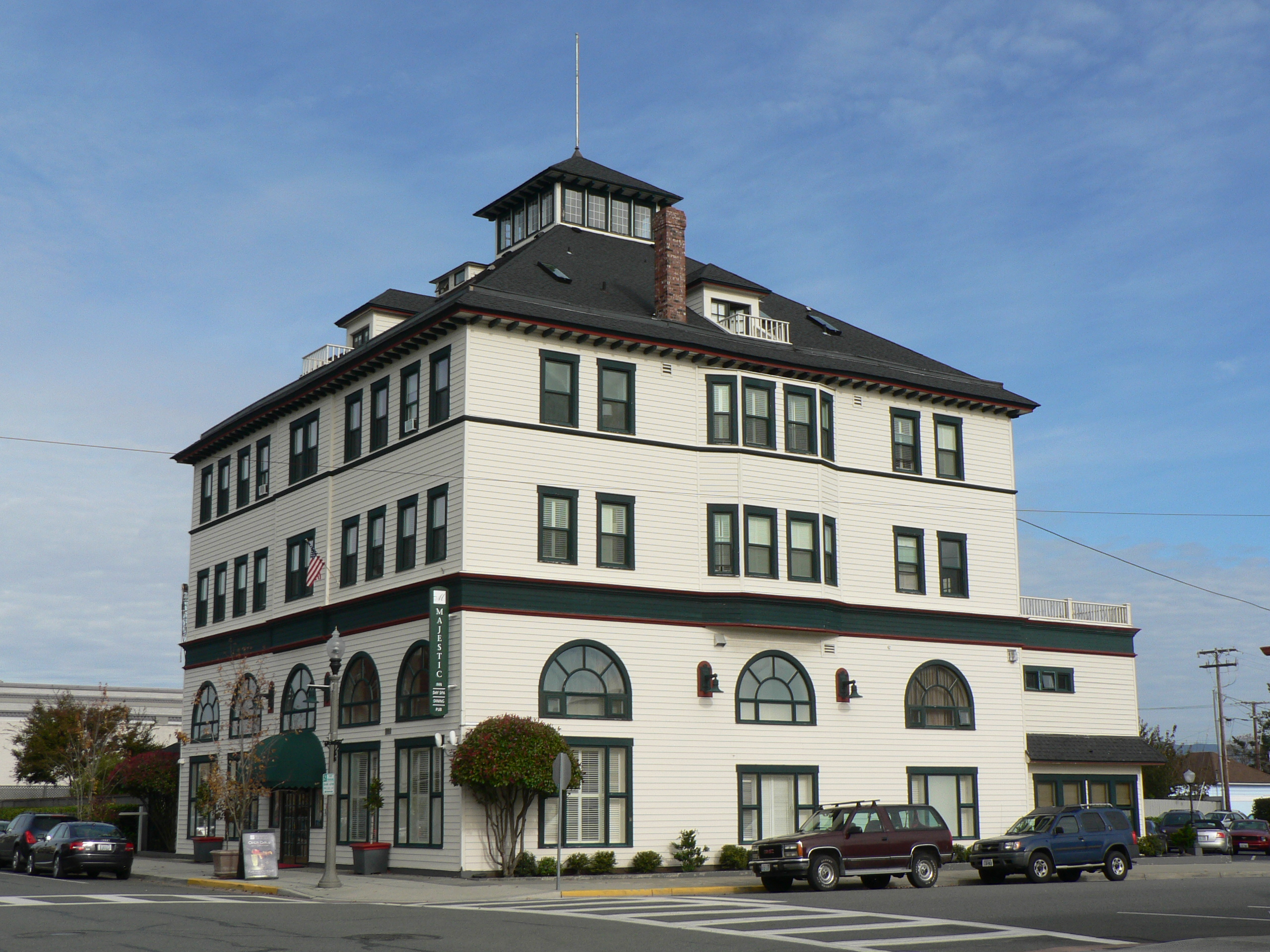 Anacortes, Washington, Majestic Inn, 419 Commercial Ave